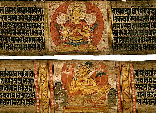 Astasahasrika Prajnaparamita Manuscript. Prajnaparamita and Scenes from the Buddha's Life (top), Maitreya and Scenes from the Buddha's Life (bottom), circa 1075 Book/manuscript; Painting; Watercolor, Text: written in ink; illustrations: opaque watercolor on palm leaf.